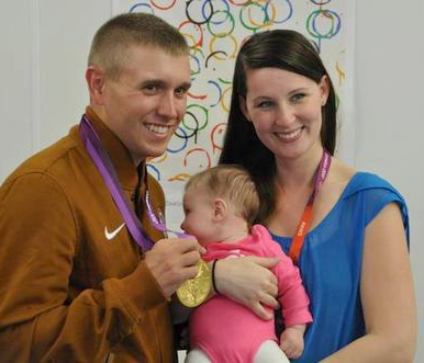 U.S. Army marksman Sgt. Vincent Hancock stands with his family after winning gold in the 2012 Summer Olympics. He became the first shotgun shooter to win consecutive Olympic gold medals in men’s skeet today at the Royal Artillery Barracks in London.Hancock, 23, of Eatonton, Ga., eclipsed his own records set at the 2008 Beijing Games for both qualification (123) and total (148) scores. He struck gold in China with a qualification score of 121 and total of 145. Hancock prevailed by two shots over silver medalist Anders Golding (146) of Denmark and by four shots over Qatar’s Nasser Al-Attiya (144), who secured the bronze medal by winning a shoot-off against Russia’s Valeriy Shomin. (U.S. Army photo by Tim Hipps, Army IMCOM Public Affairs)